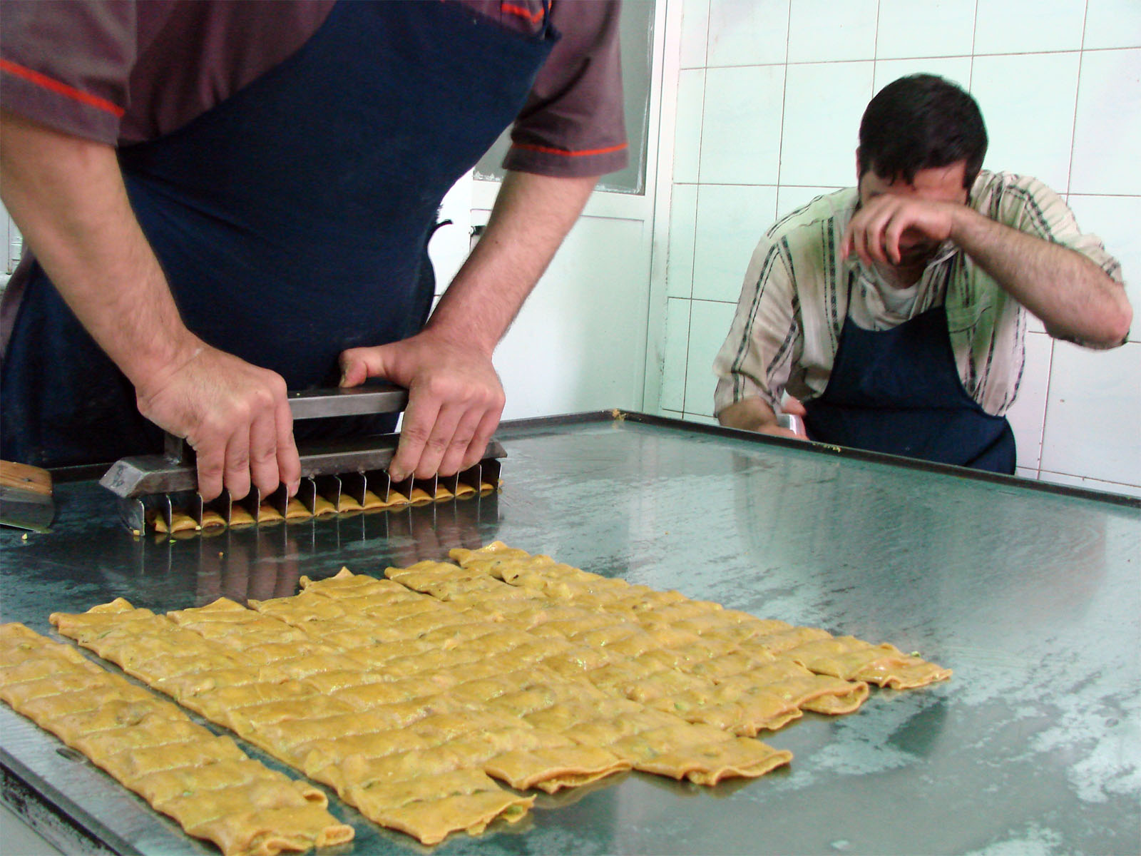 om Province (Persian: استان قم, Ostān-e Qom) is one of the 31 provinces of Iran with 11,237 km², covering 0.89% of the total area in Iran. It is in the north of the country, and its provincial capital is the city of Qom. Acèh: Propinsi Qom nakeuh saboh propinsi nyang na di Iran.